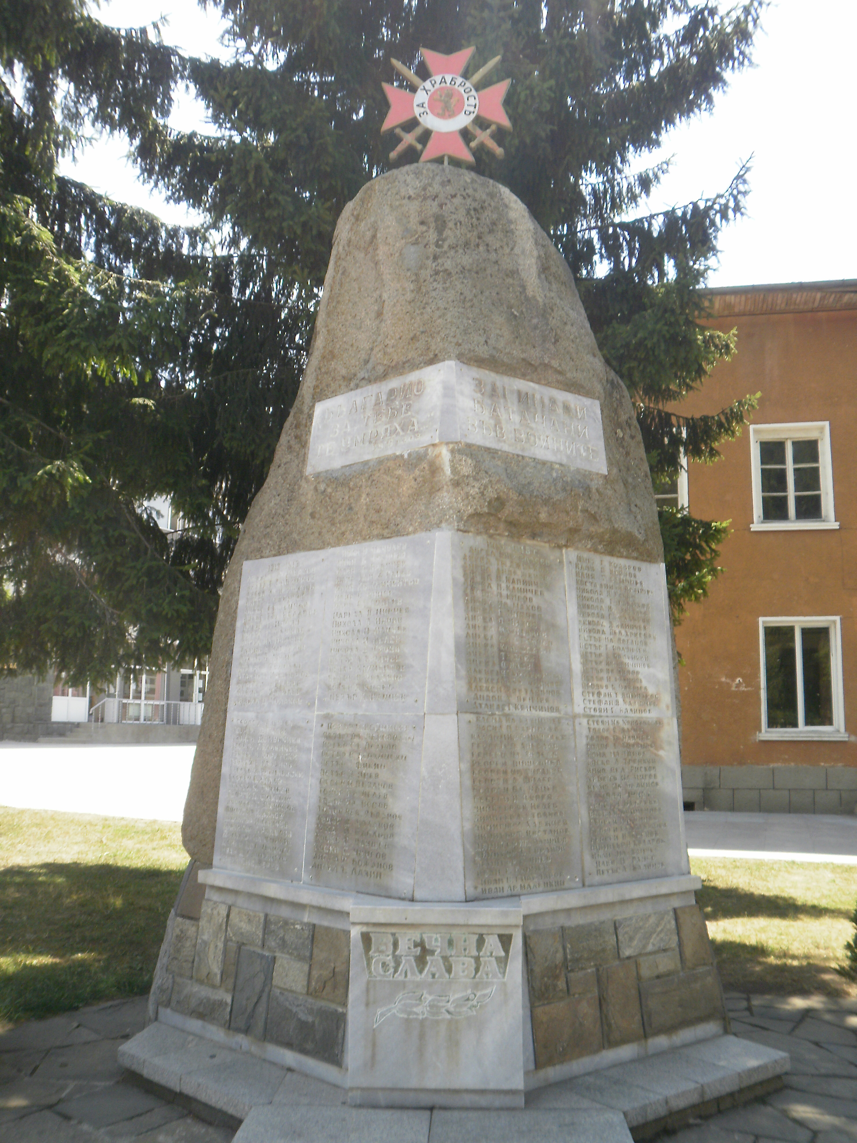 Batak, Bulgaria.